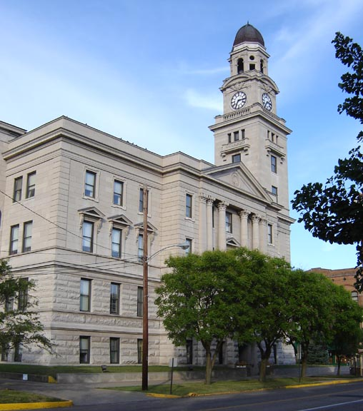 Ohio Washington County - Marietta - Courthouse 06-23-07 By:Mike Sharp.